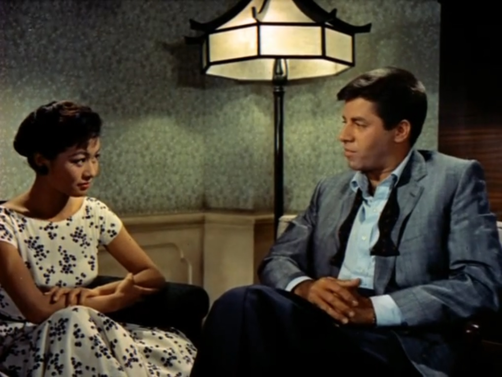 Nobu McCarthy & Jerry Lewis in The Geisha Boy - trailer (cropped Screenshot)